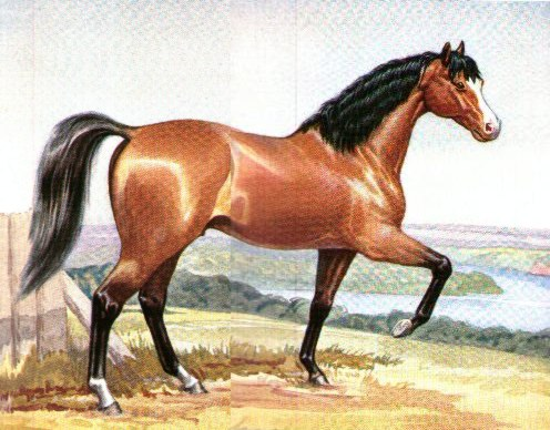 Old Hector (c. 1792-1823) was a sire of Walers, trotters and was an important sire in colonial Australian bloodhorse breeding.